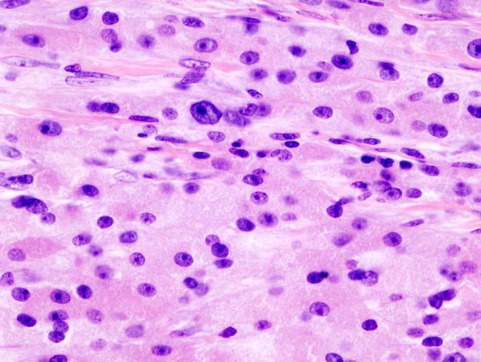 Histopathologic image of granular cell tumor of the skin. The same case as shown in a file "Granula_cell_tumor_(1)_skin.jpg". H & E stain.